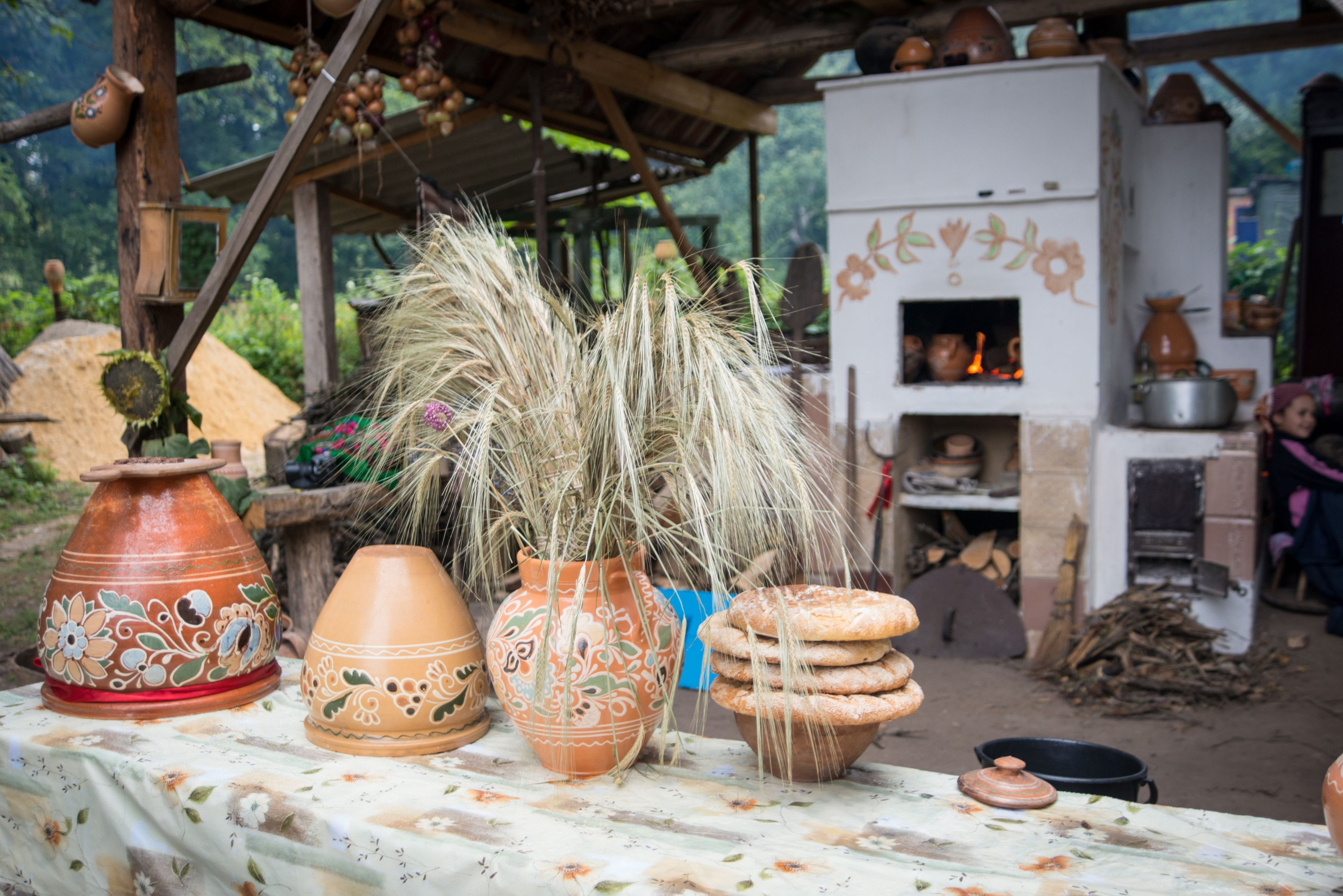 Oven. Wikiexpedition to Fest "Borschyk in clay pot". Poltava region